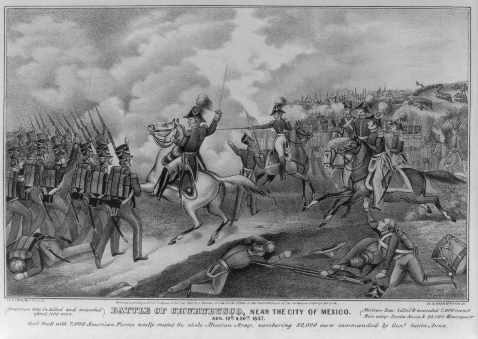 Battle of Churubusco, near the city of Mexico